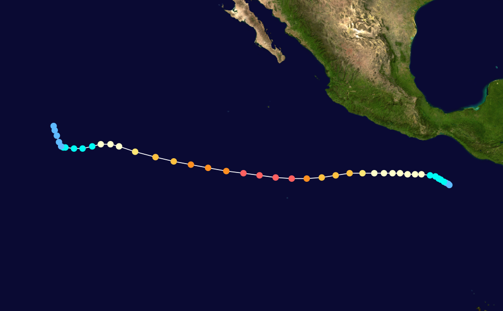 Hurricane Ava (1973) track. Uses the color scheme from the Saffir-Simpson Hurricane Scale.